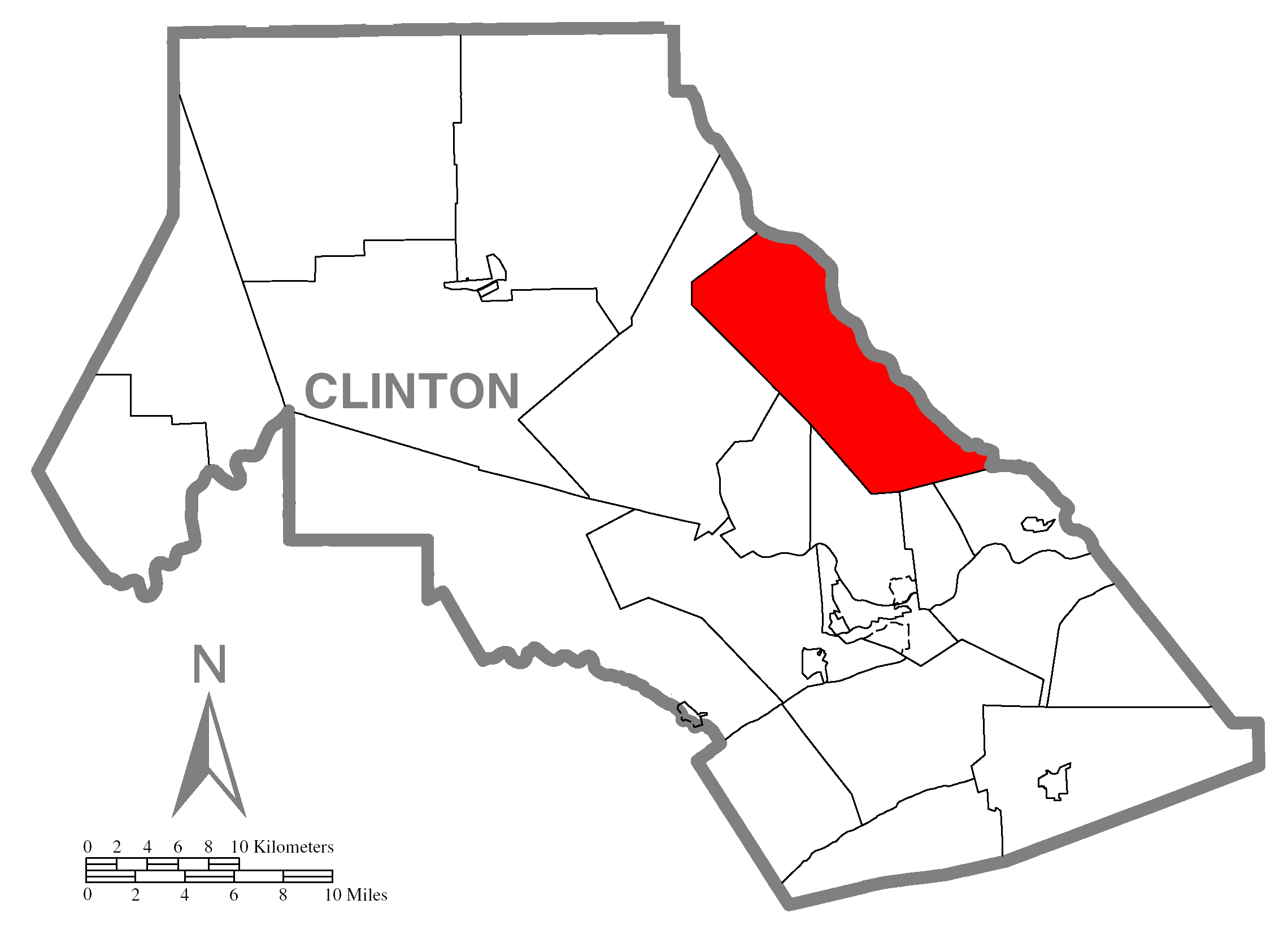 A map of Clinton County showing Gallagher Township, Pennsylvania (alternate) highlighted on the map.